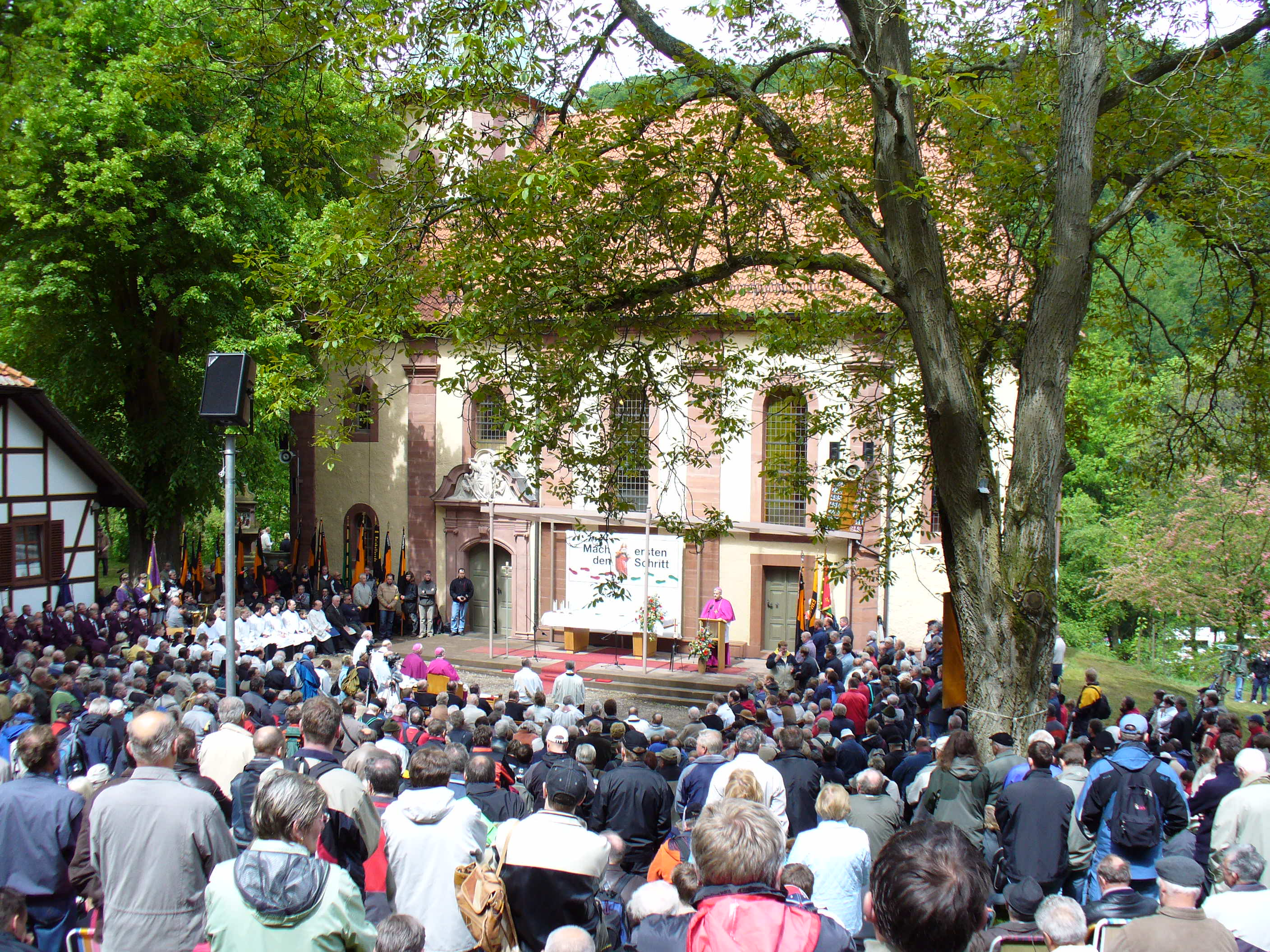 51st Pilgrimage of Men to Klüschen Hagis